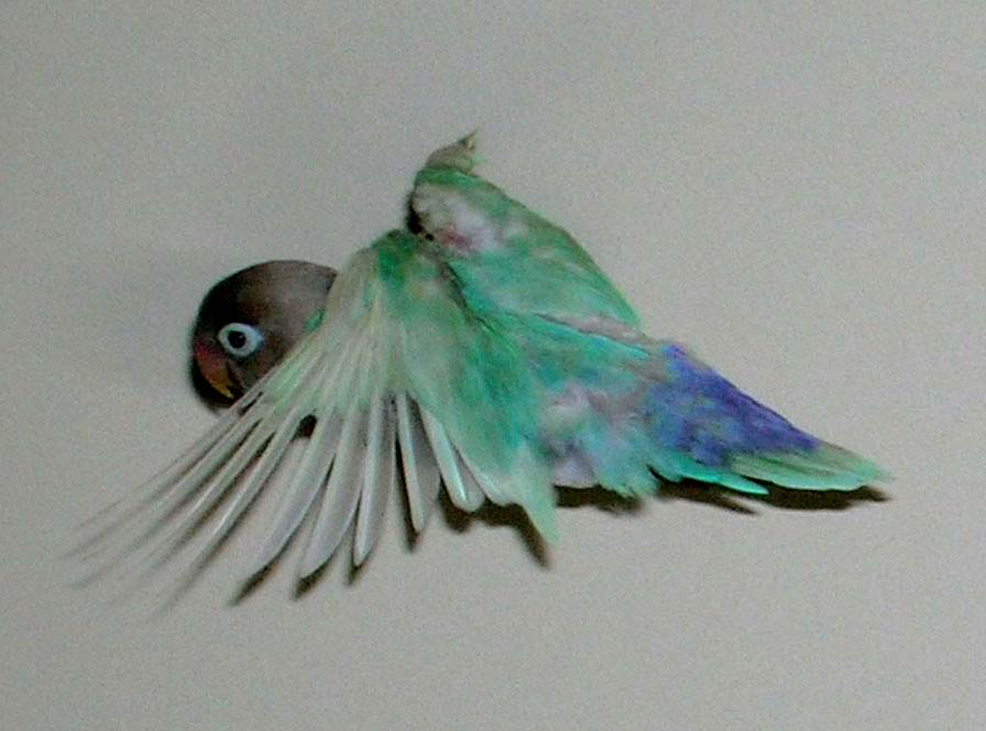 Blue fischer's lovebird mutant in flight